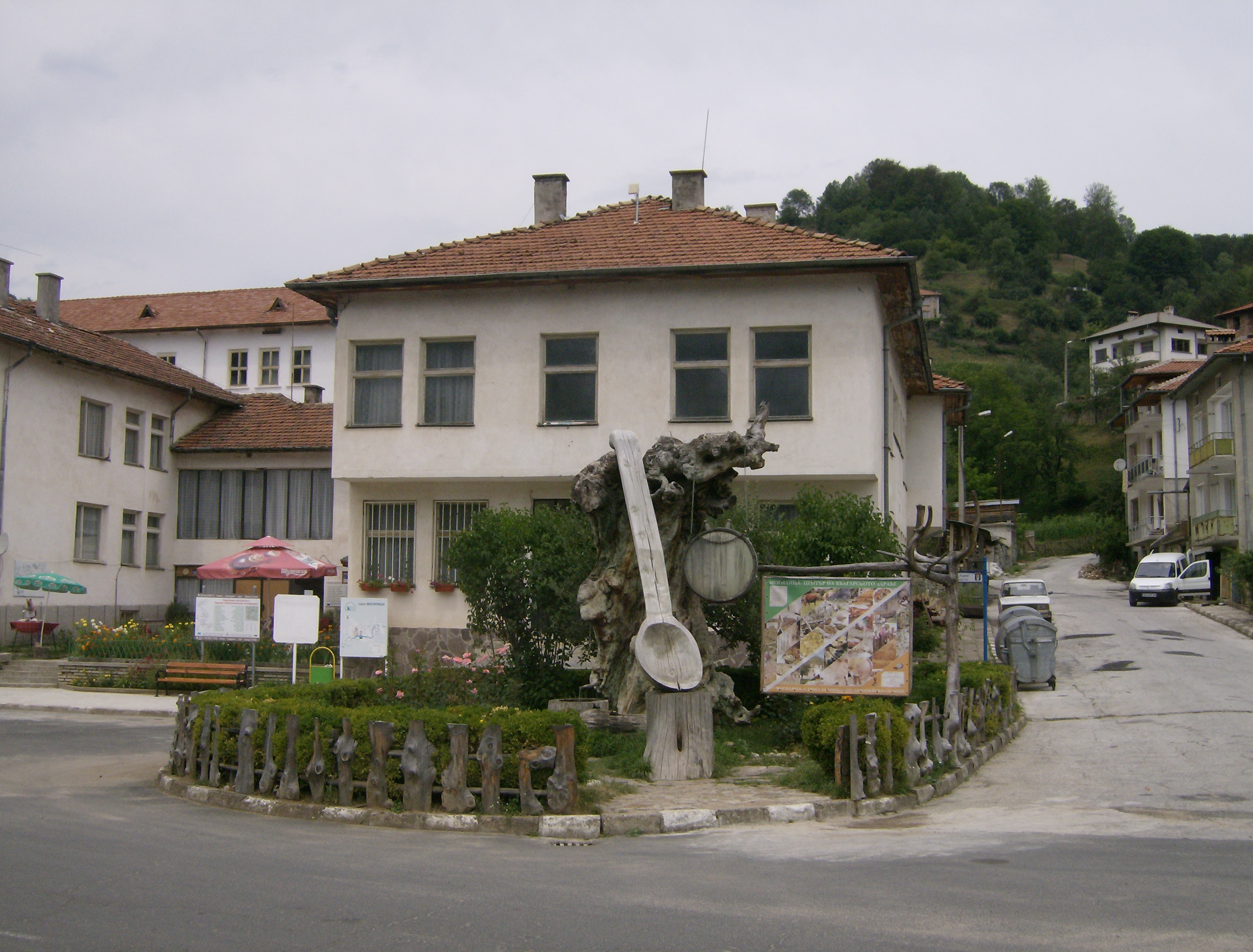 Mogilitsa center